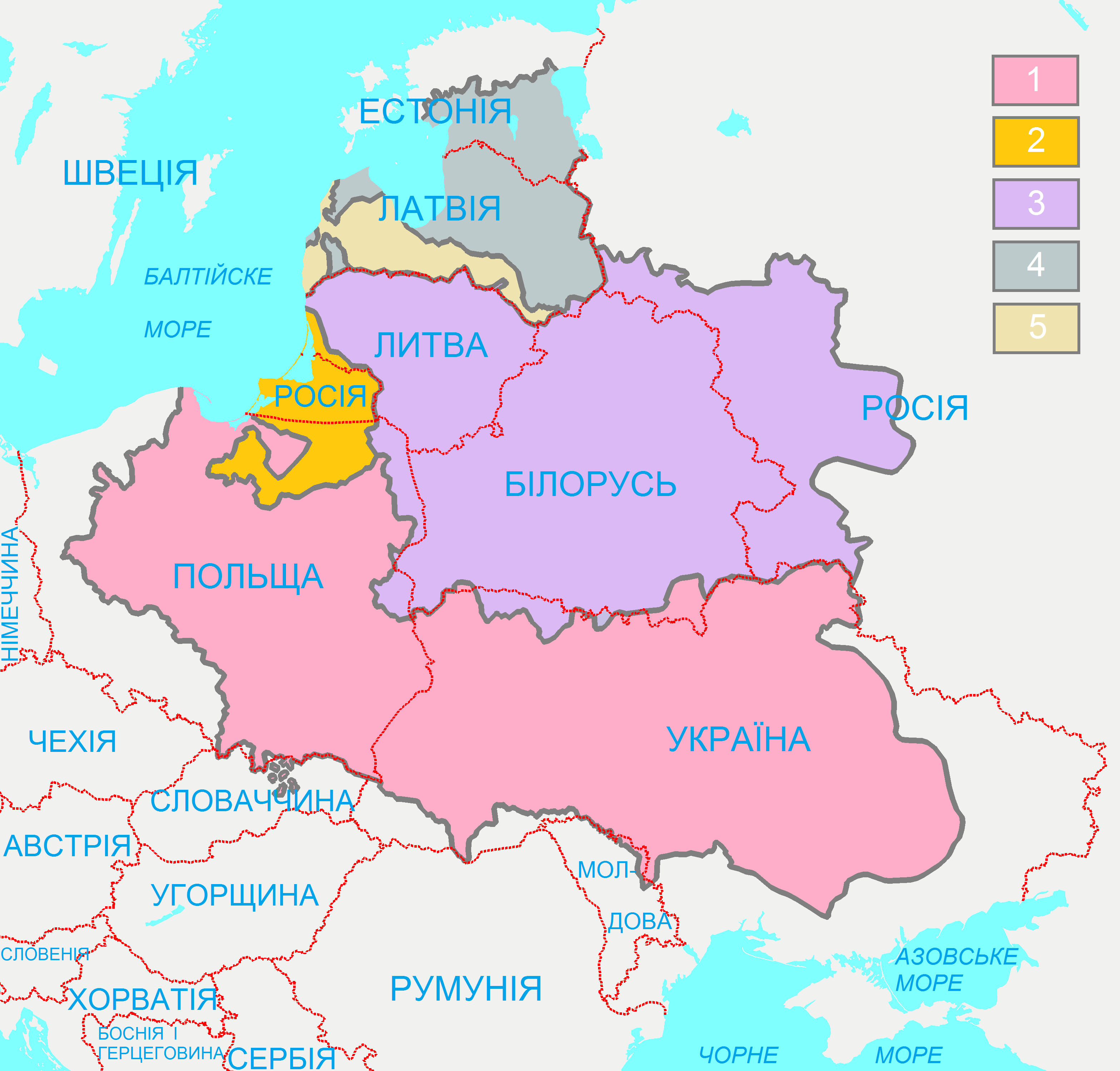 Polish-Lithuanian Commonwealth (1619) compared with today's borders (Polish names)Legend1 - The Crown (Kingdom of Poland),2 - Duchy of Prussia - Polish fief,3 - Grand Duchy of Lithuania,4 - Livonia,5 - Duchy of Courland - Livonian fief.